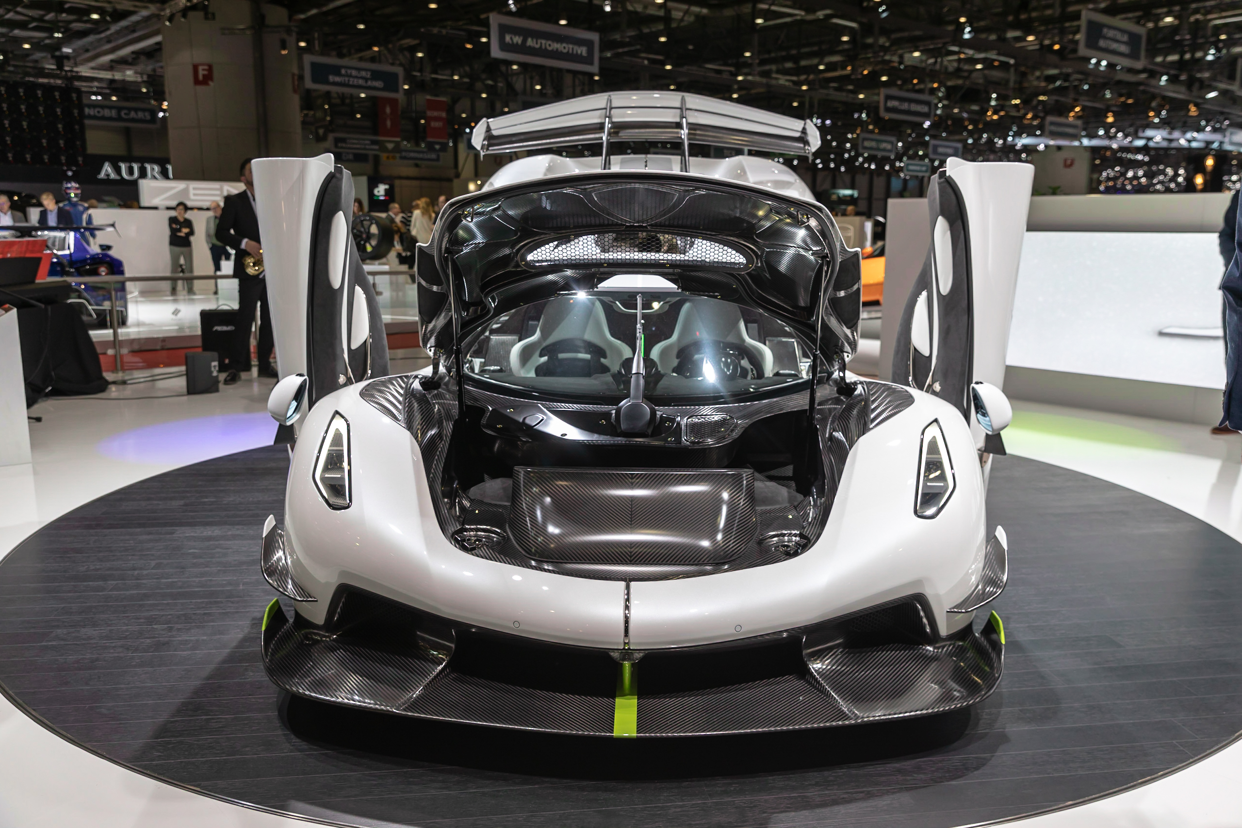 Koenigsegg Jesko at Geneva International Motor Show 2019, Le Grand-Saconnex